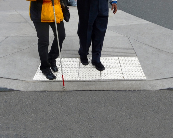 ADA Compliant Detectable Warning Installation on a high traffic area in New York City.